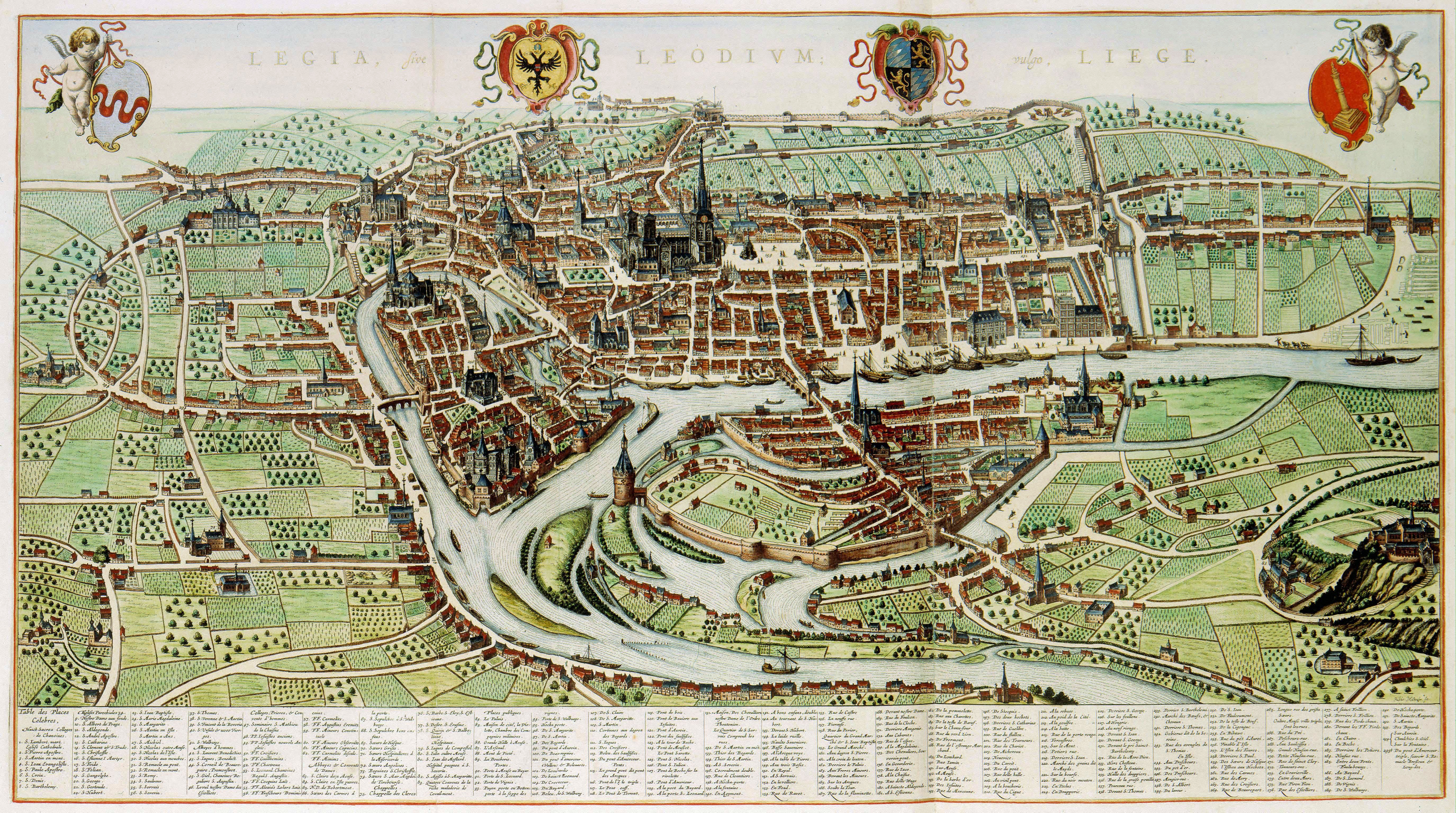 Map of Liège in the 16th century engraved on copper by Julius Milheuser in 1627 and published by Johannes Blaeu in Amsterdam in 1649, entitled Legia sive Leodium vulgo Liege. Julius Milheuser fecit. Novum ac magnum theatrum urbium Belgicœ regiœ. The view is from St-Maur.